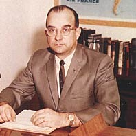 CIA - US Government photo